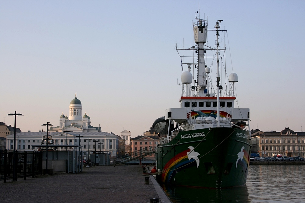 Greenpeace ship Arctic Sunrise alongside in Helsinki, Finland